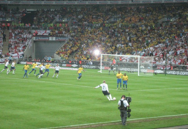 David Beckham takes free kick.